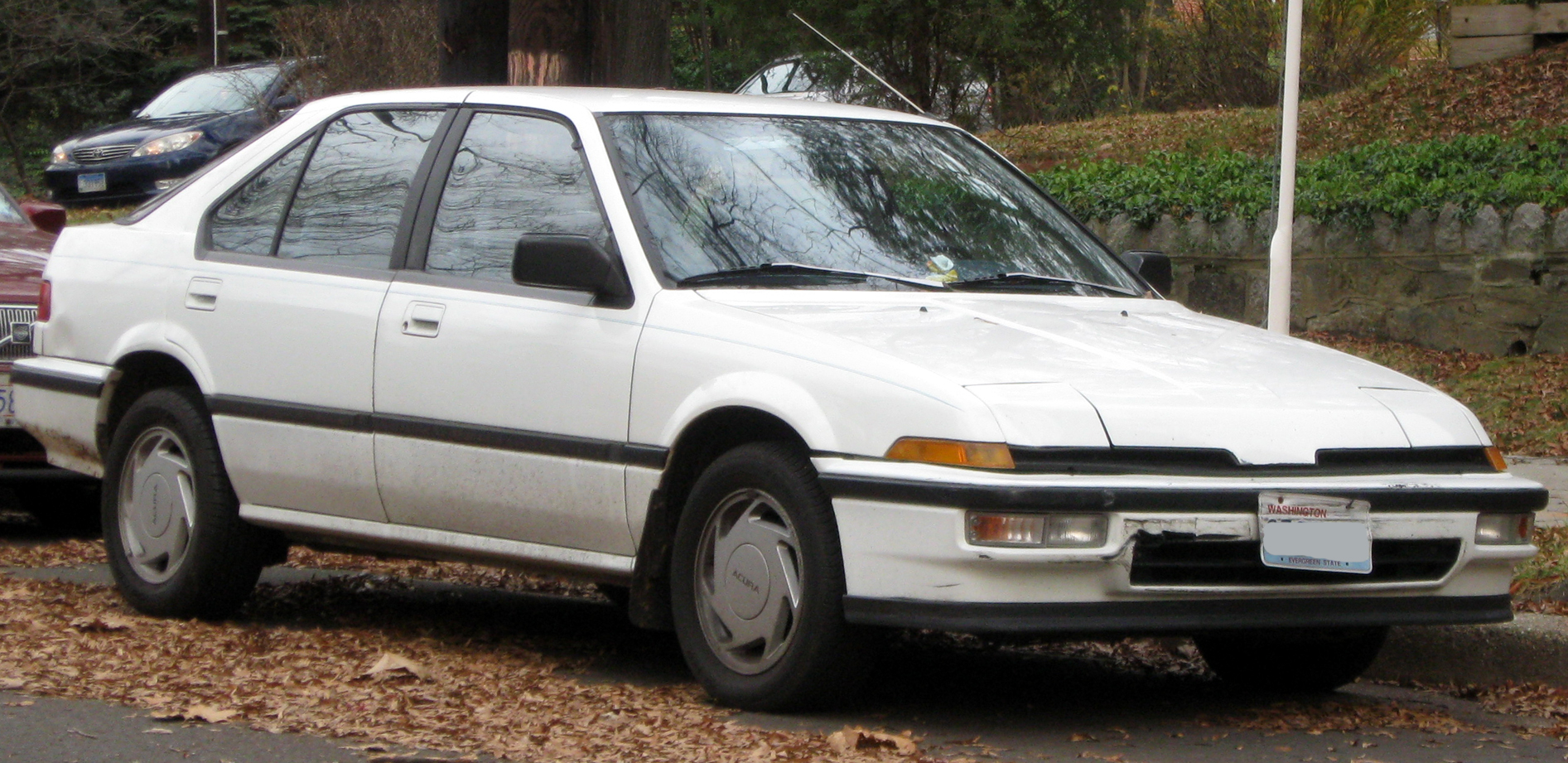 Acura Integra photographed in Washington, D.C., USA.